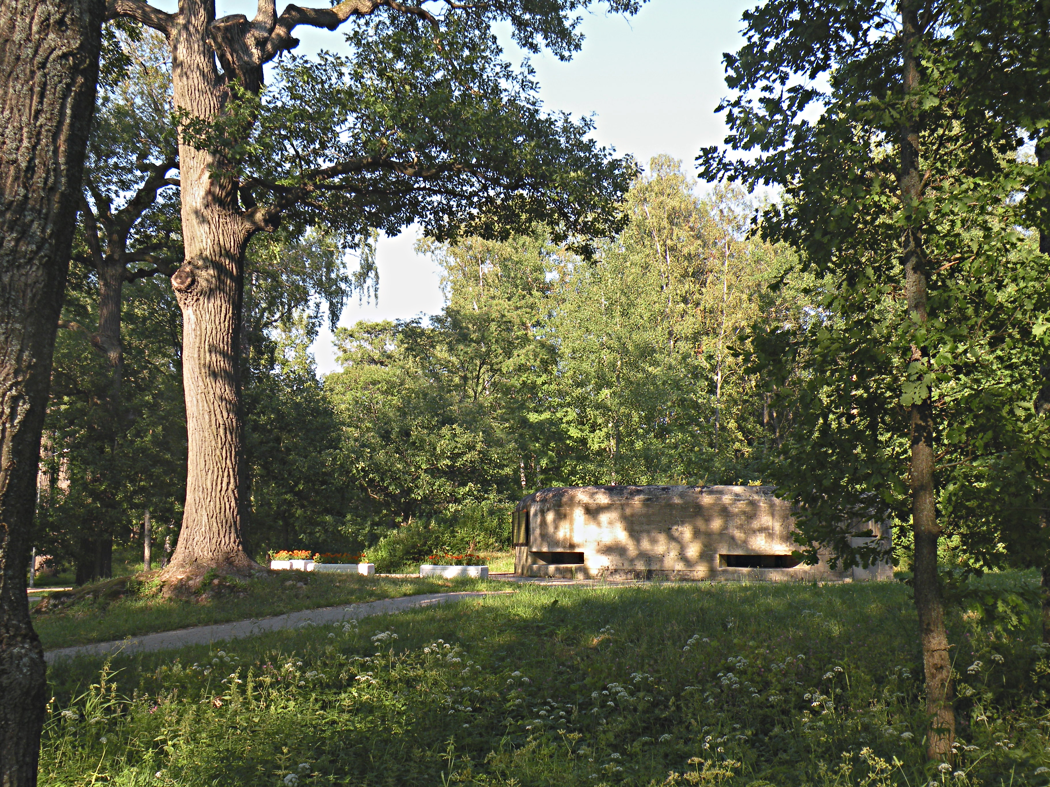 Pillbox_(military).Nr.122. Of "Stalin Line".In Dubki (Sestroretsk).1930.